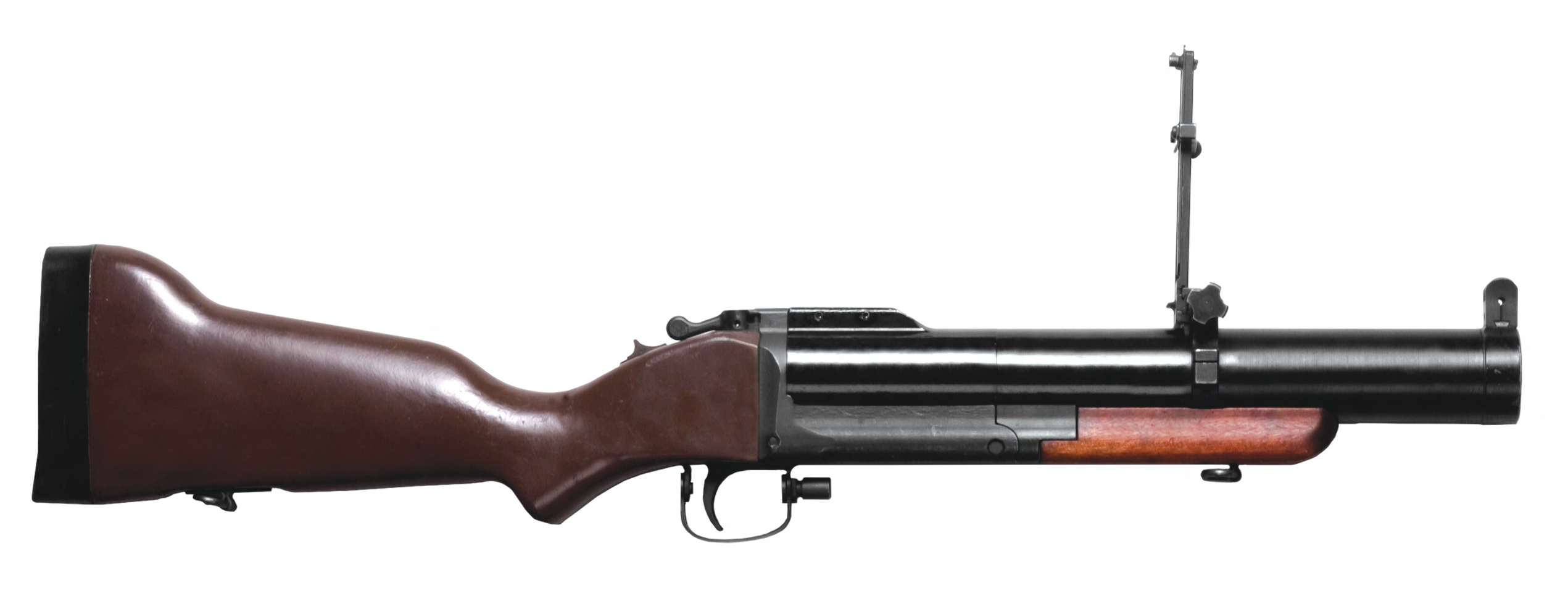 M79 Grenade Launcher Primary function: Anti-personnel and light materiel targets. Length: 29 in. with 14 in. barrel. Weight: 6.4 lb. loaded. Caliber: 40 mm. Maximum effective range: Individual/point target: 150 meters, area target: 350 meters (50 percent casualty rate of exposed personnel within a 5-meter radius). Rate of fire: 5-7 rounds per minute.